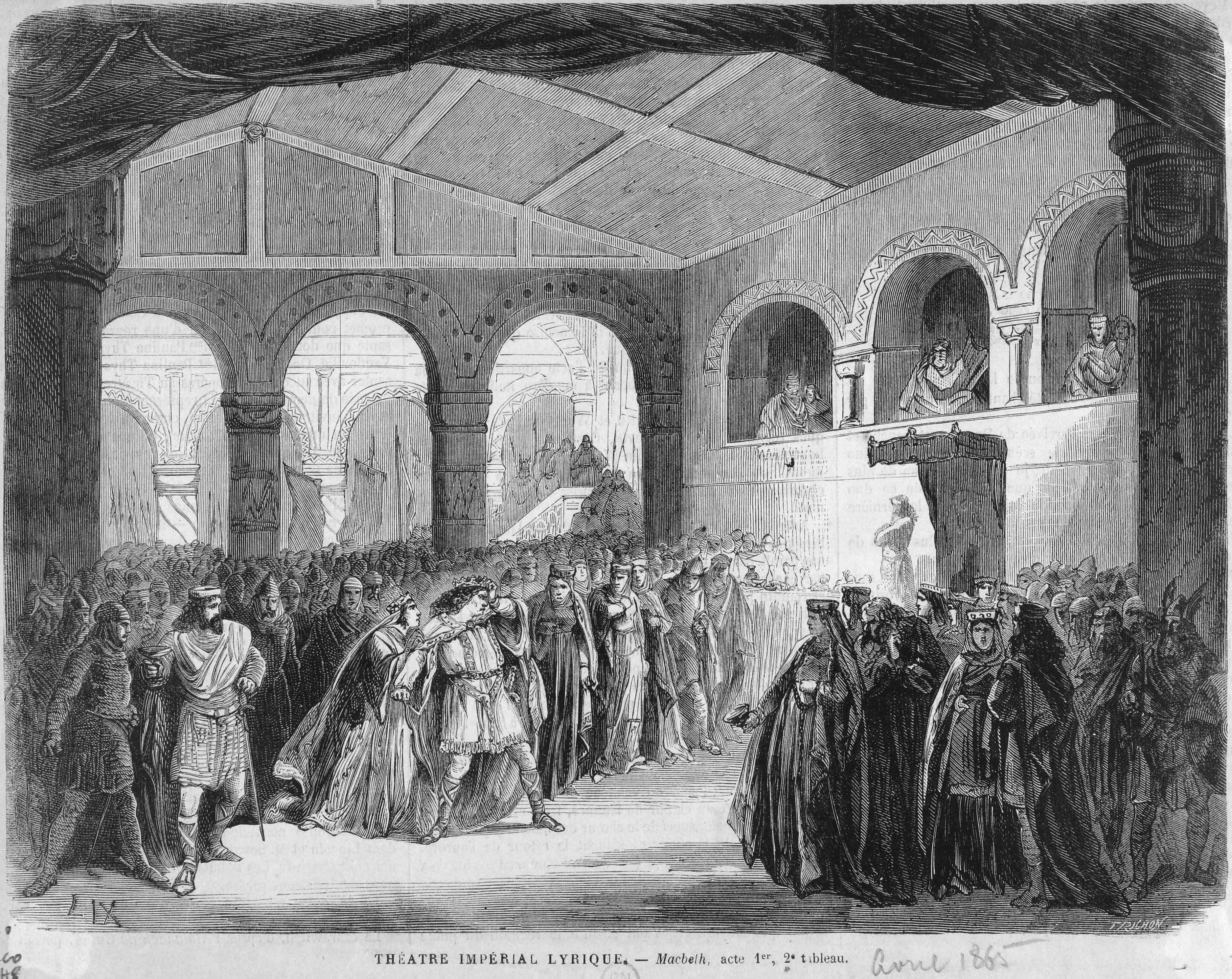 Press illustration of Act 1 scene 2 of Verdi's Macbeth as performed at the Théâtre Lyrique in Paris beginning on 21 April 1865